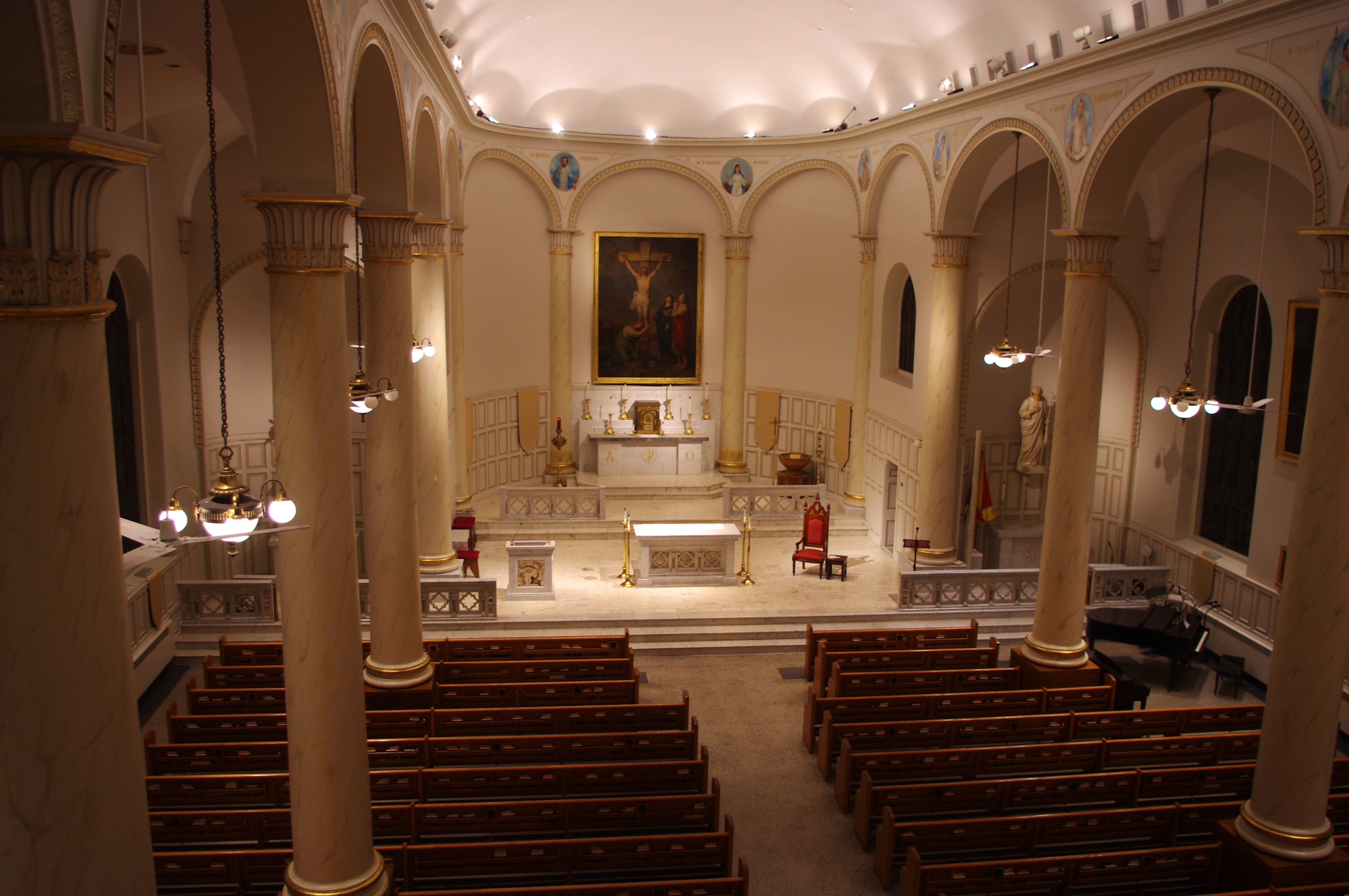 Basilica of Saint Joseph Proto-Cathedral (Bardstown, Kentucky), interior, nave, view from organ loft